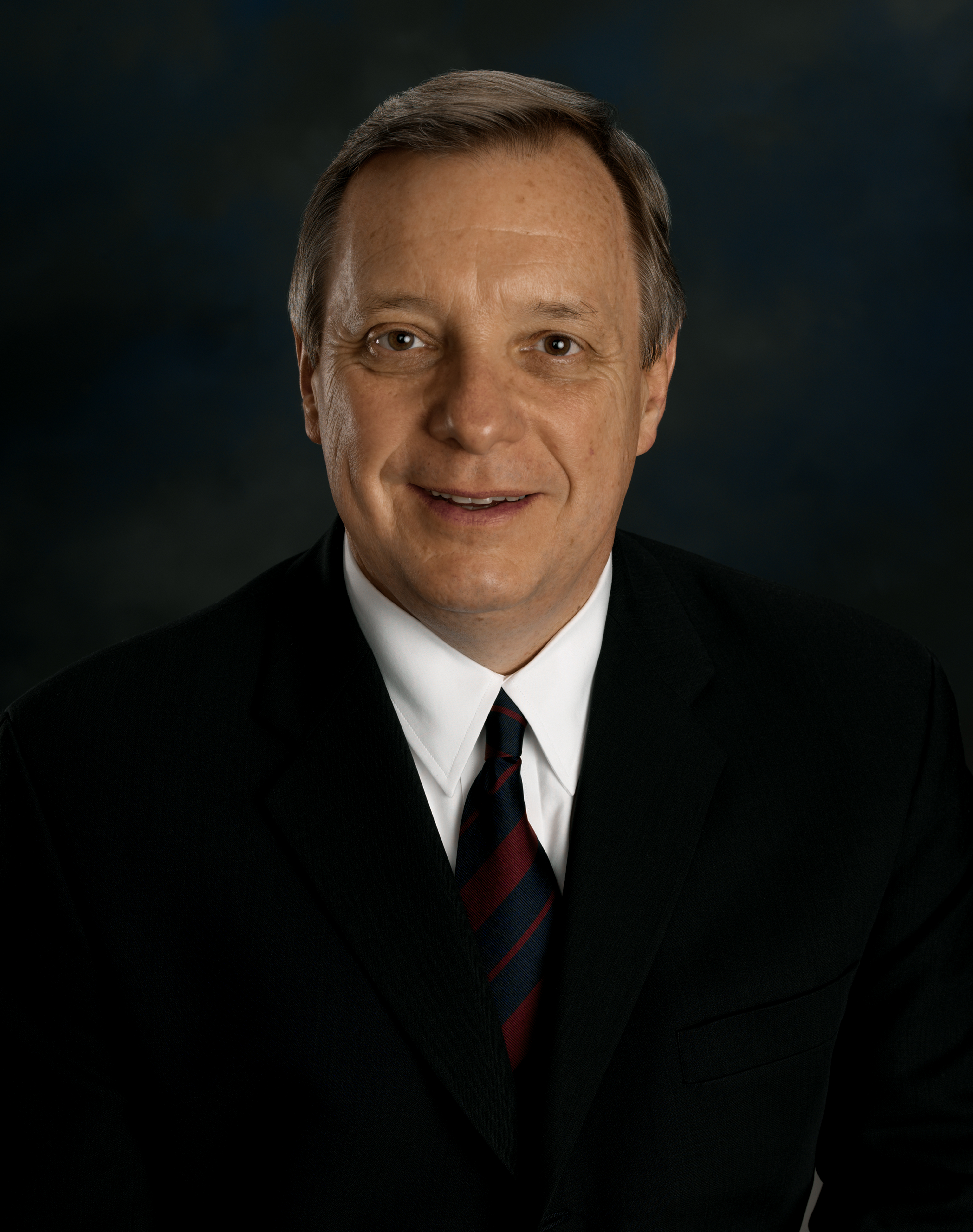 U.S. Senator Richard Durbin, of Illinois.